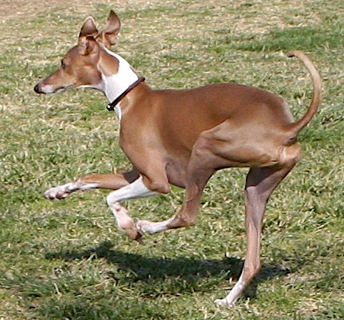 Whippet